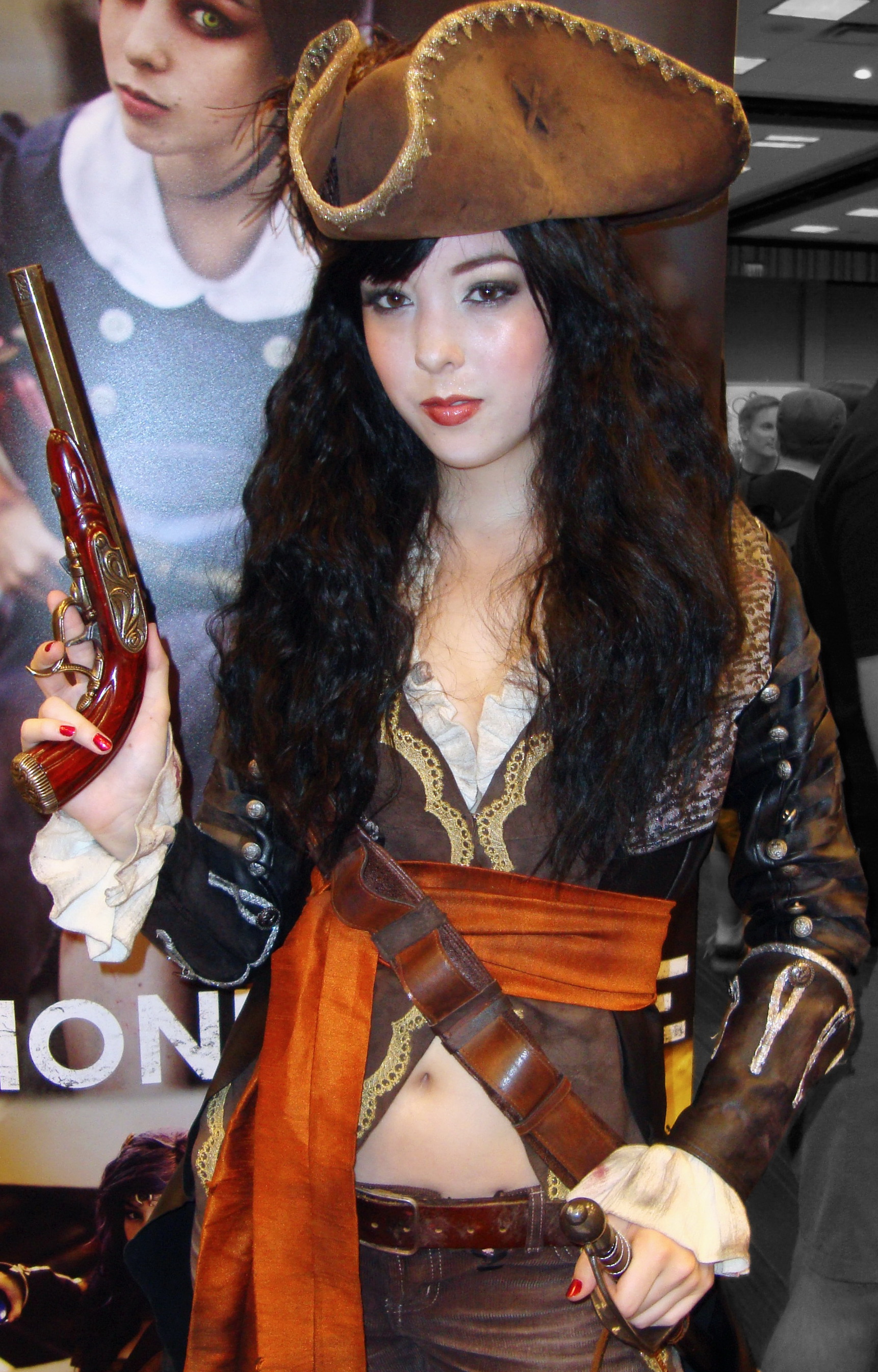 Monika Lee was one of the cosplayers on the TV show, "Heroes of Cosplay," and seemed quite nice when I met her w/ Riddle. No, I have not watched this show nor do I ever plan to as I think it was a seriously flawed concept from the get-go. Nothing against the "stars" of the show but this is one of those situations where I want to scream, "STOP BEING ON MY SIDE!!!" as it's not helping something I like and believe in. Tech stuff: Added in a B&W layer and masked out Monika and her advertisement banner so that they were the most colorful items in the picture.